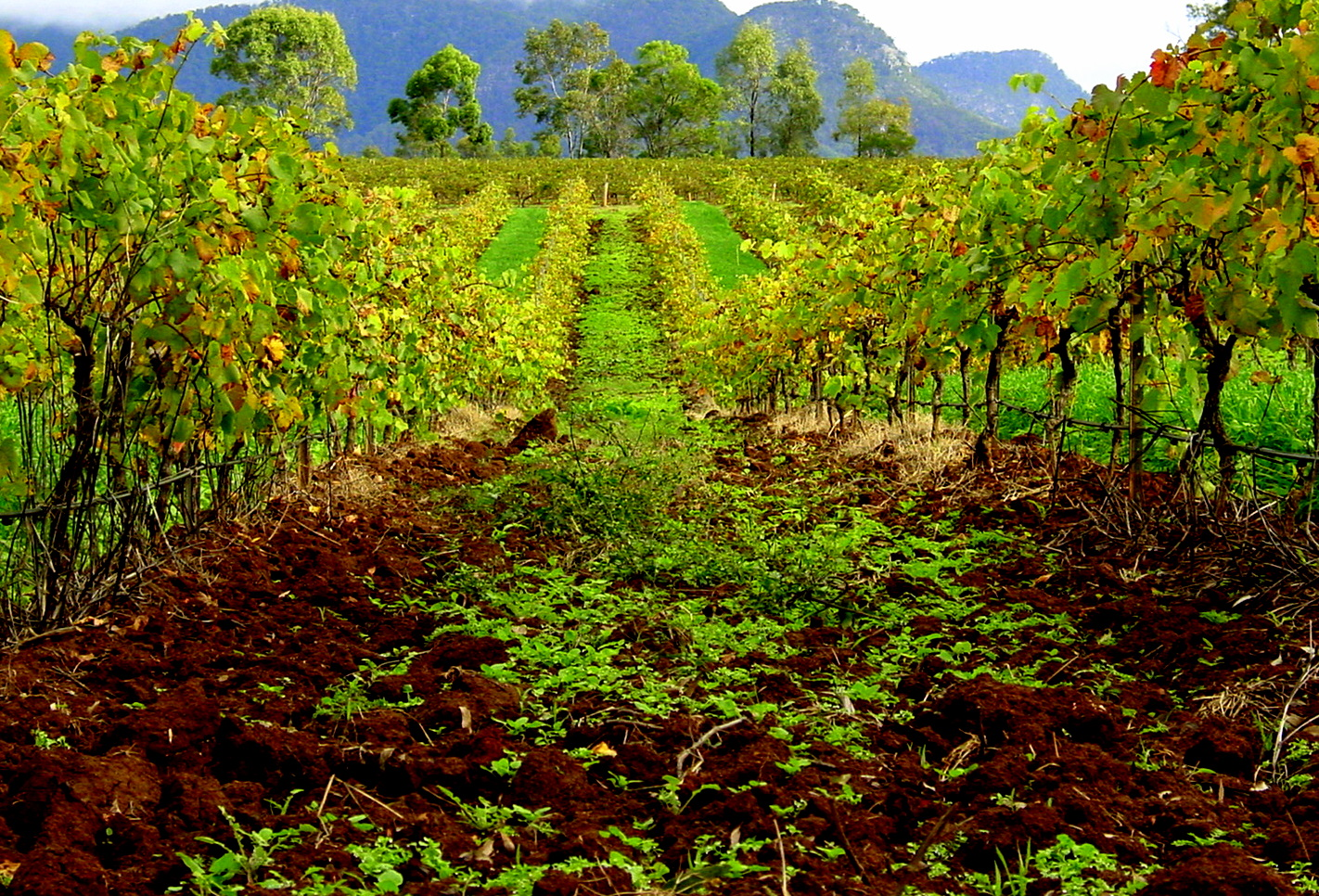 Polyculture between the vines in the Australian wine region of the Hunter Valley in New South Wales